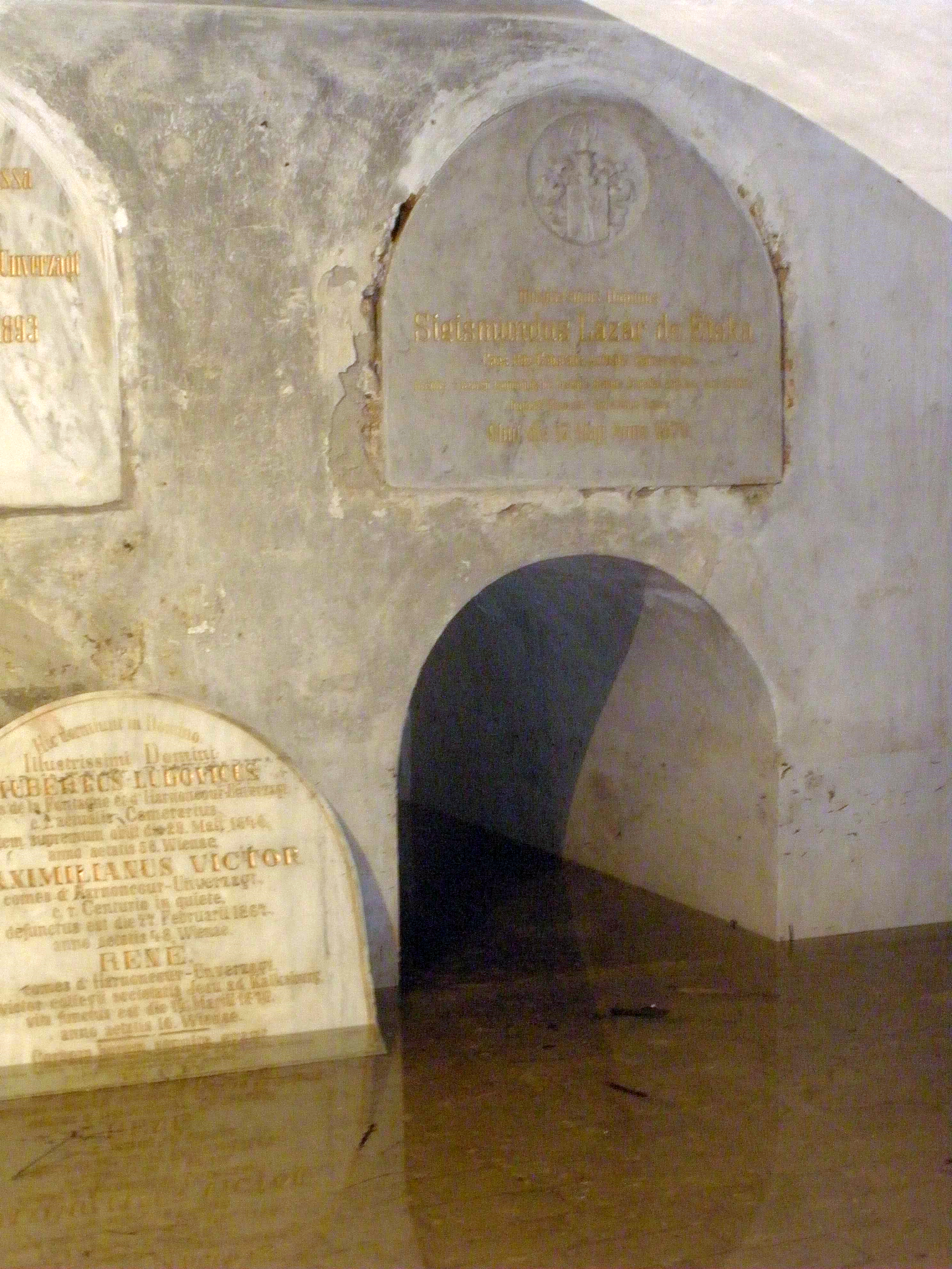 Krypta of comtes Lazar in Ečka under church. There was water in year 2010 and on one is blazon of Ečka.